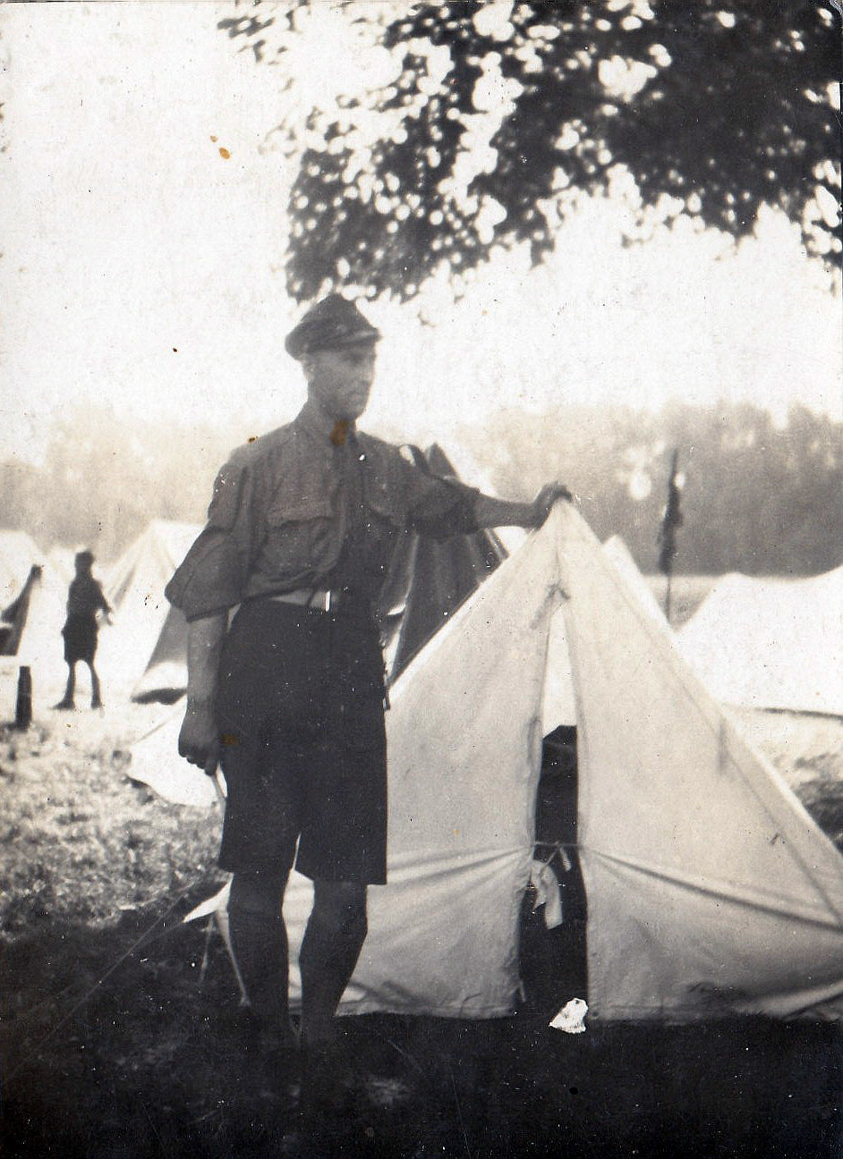 Tomasz Piskorski on a scout camp